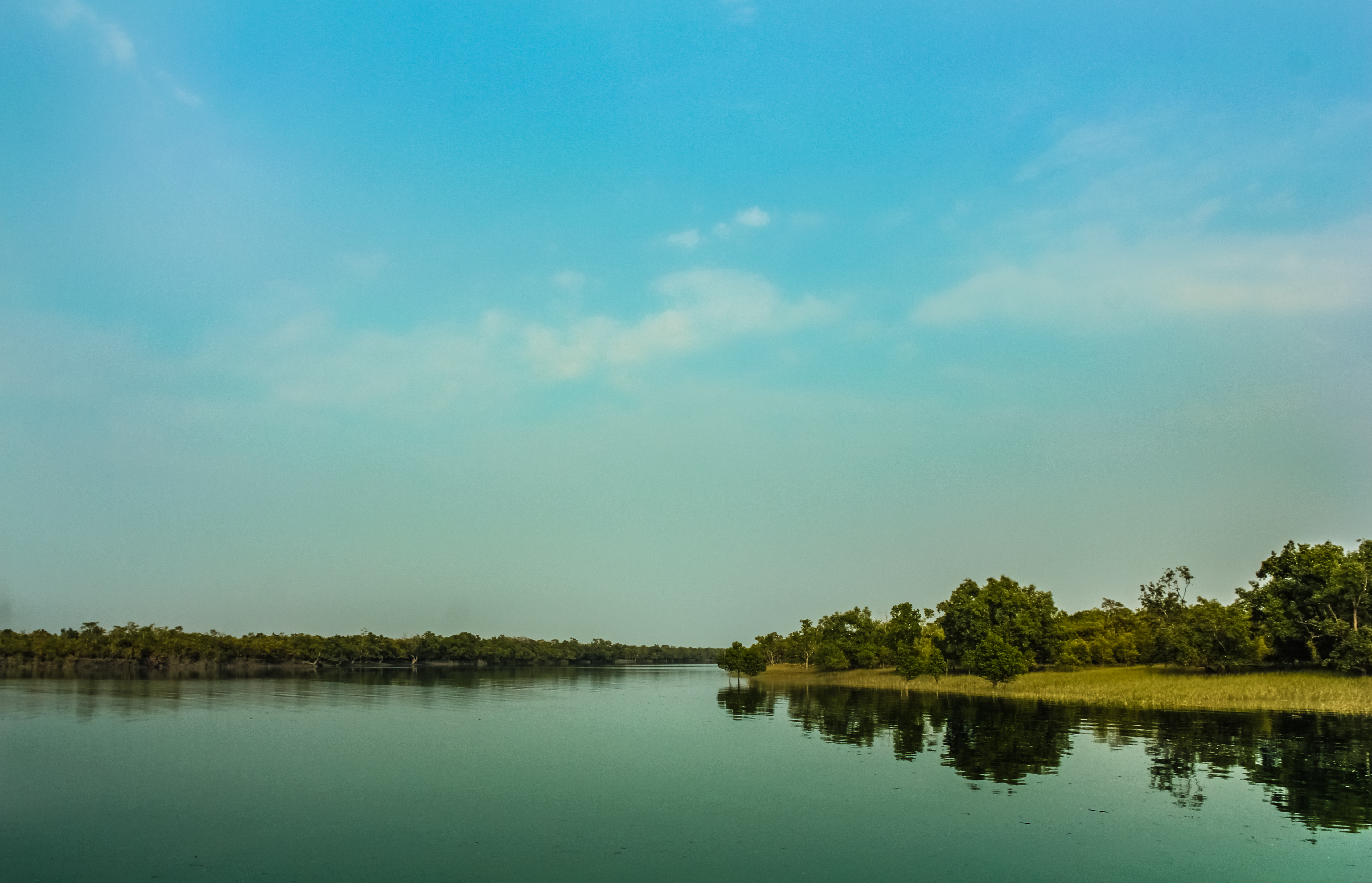 The natural glory of Sundarban, West Bengal, India